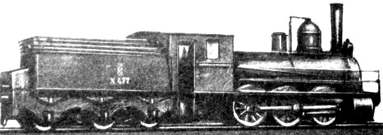 Russian locomotive T series, Hartman works, 1868